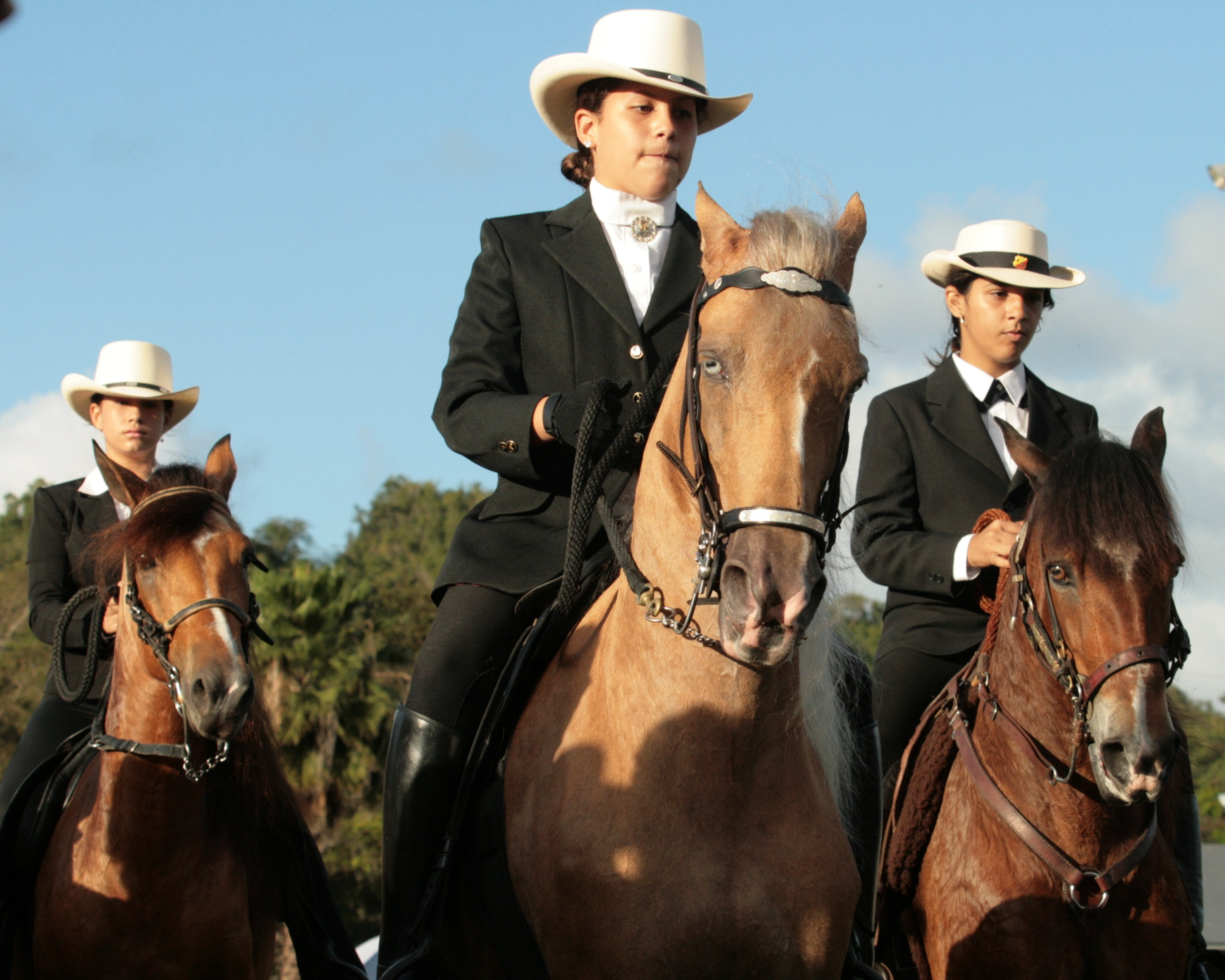 Paso Fino Horses in Equitation Class at the 2009 Copa La Candelaria in Manati, Puerto Rico, 2009